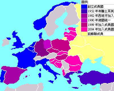 從英文版的北約國家圖改成的zh::Image:NATO expansion.png